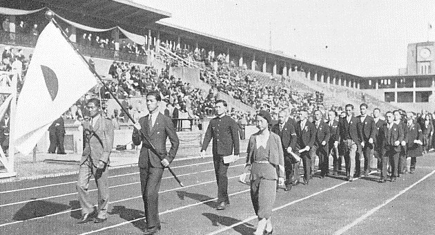 1933 Meiji Jingu Sports Festival